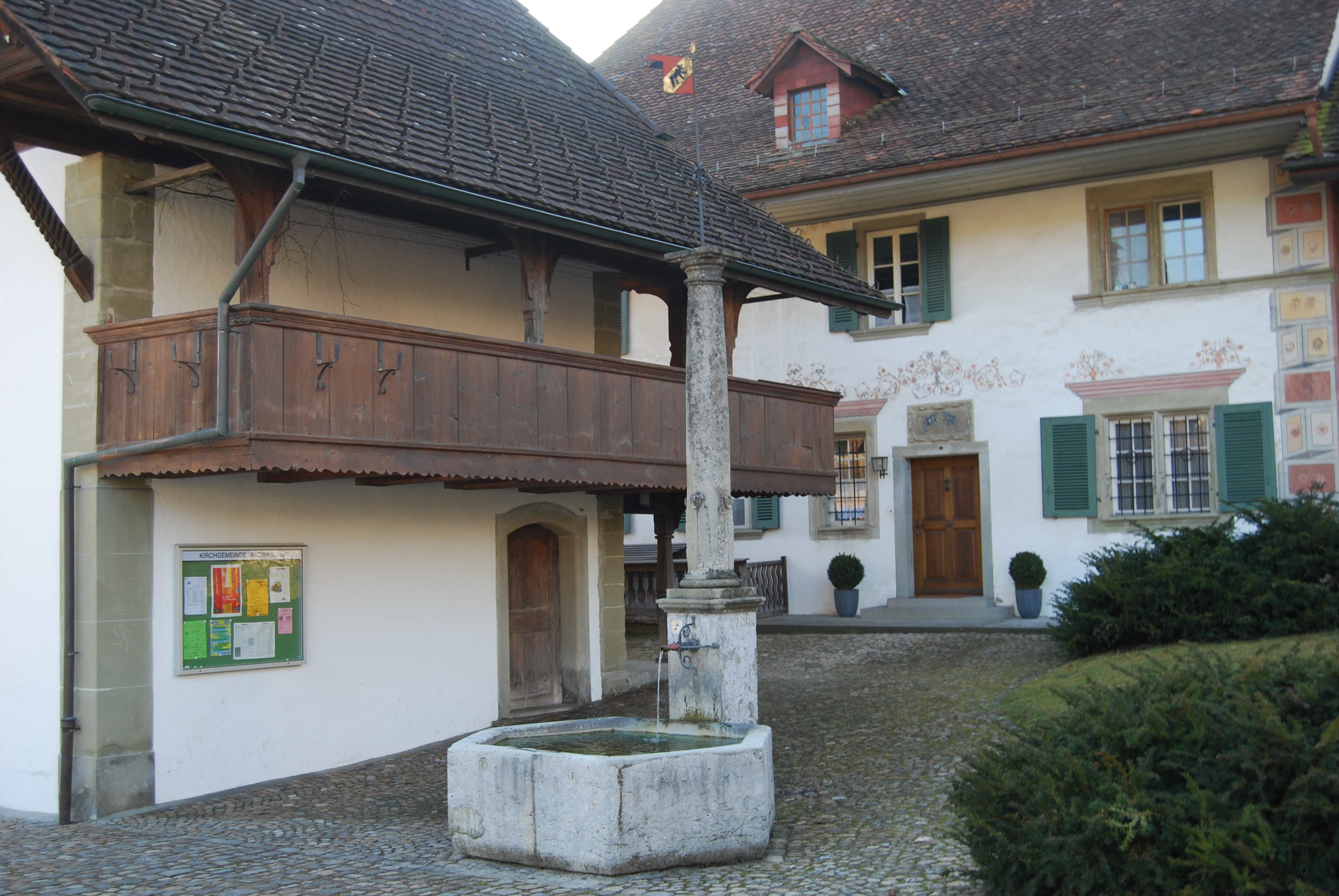 Madiswil, canton of Bern, SwitzerlandEsperanto: Madiswil, Kantono Berno, Svislando